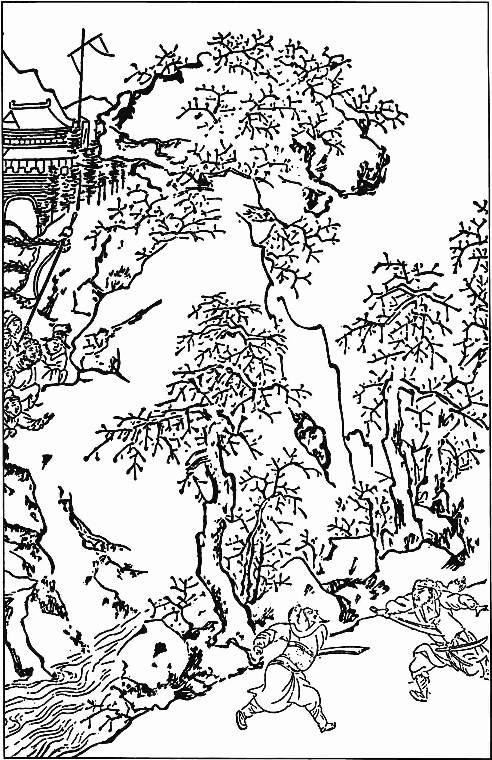 Illustration of ancient Chinese book “Outlaws of the Marsh”